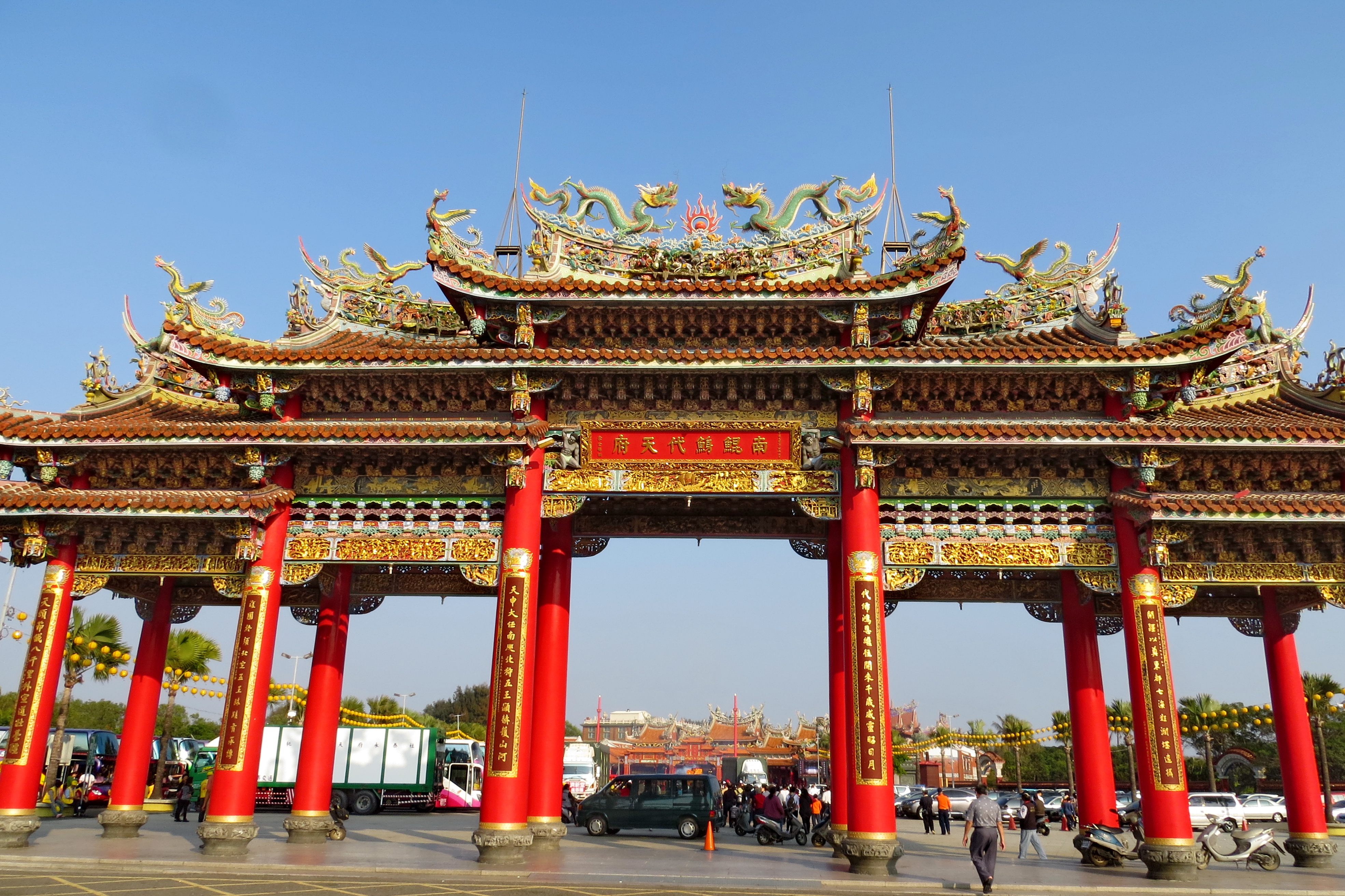 The pai lou of the Nankunshen Temple, Tainan, Taiwan.